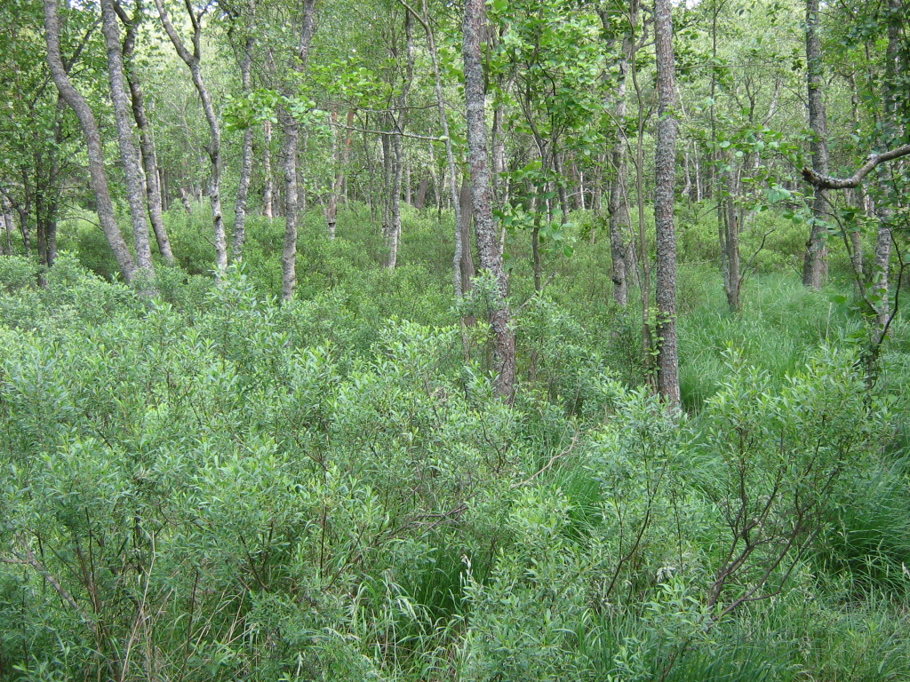 Subatlantic swamp birch forest (with Myrica gale). Slowinski National Park (Lake Łebsko shore carr). Poland.